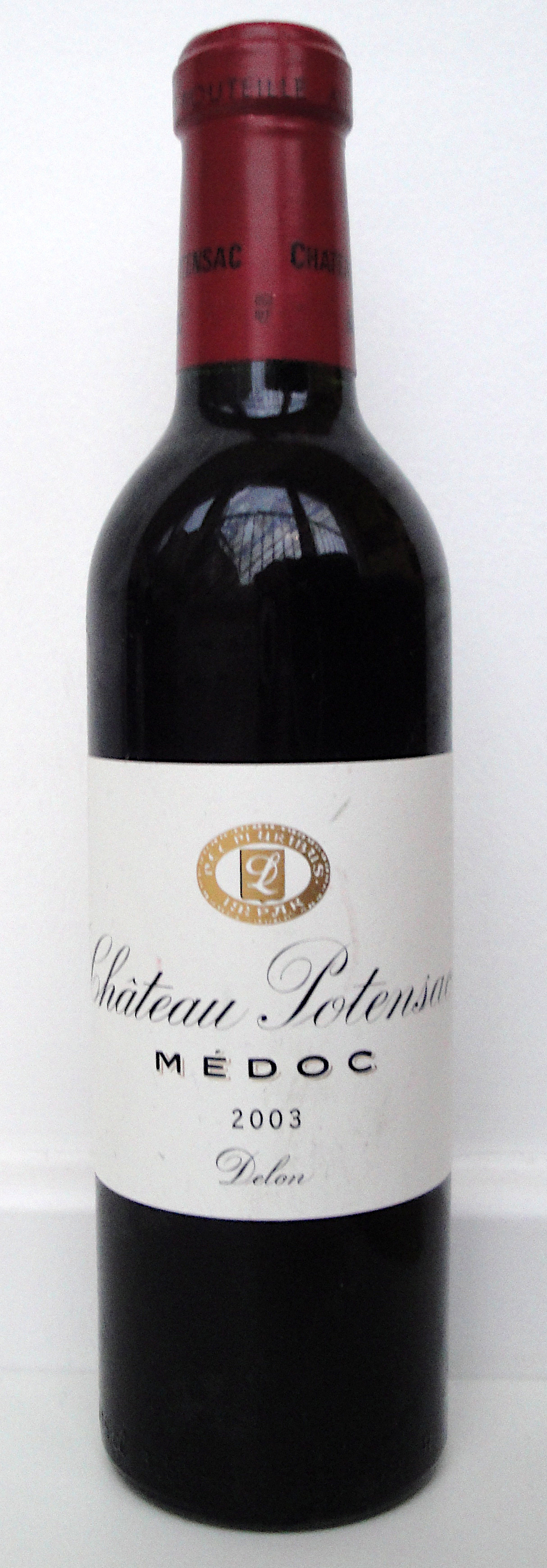 A half bottle of 2003 Château Potensac, a wine from Médoc in Bordeaux, classified as Cru Bourgeois Exceptionnel.